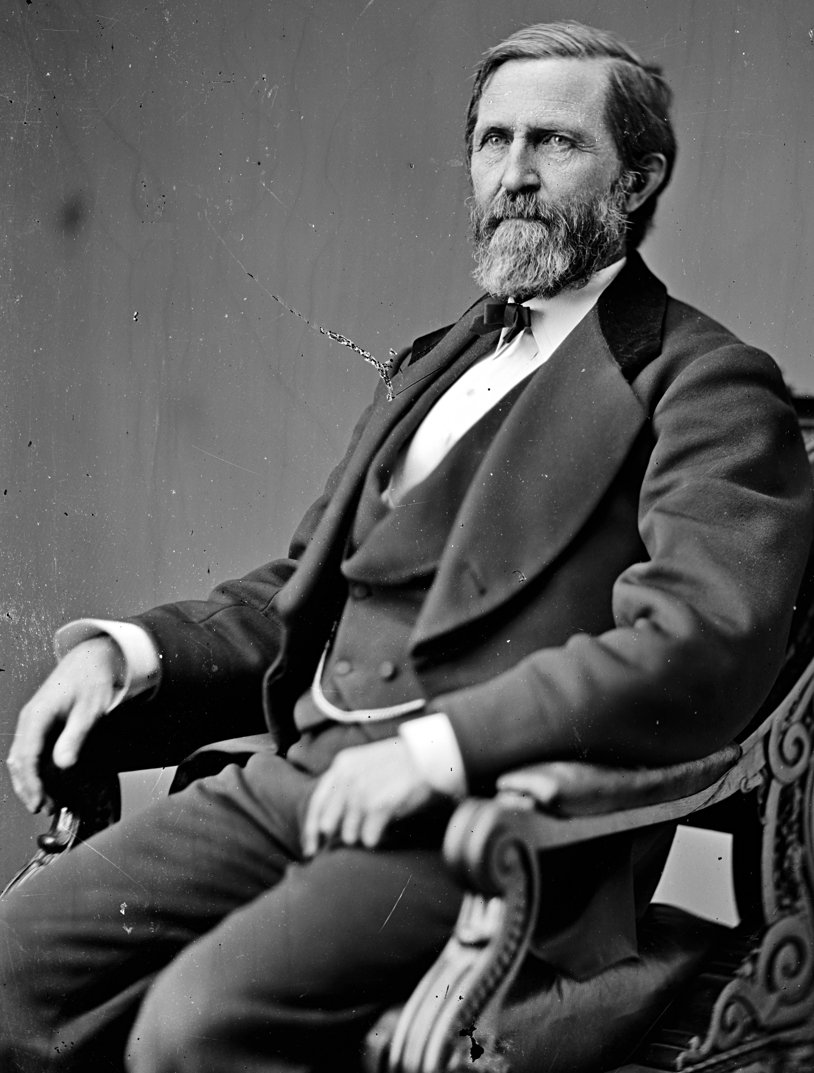 Robert Anthony Hatcher, US Representative from Missouri